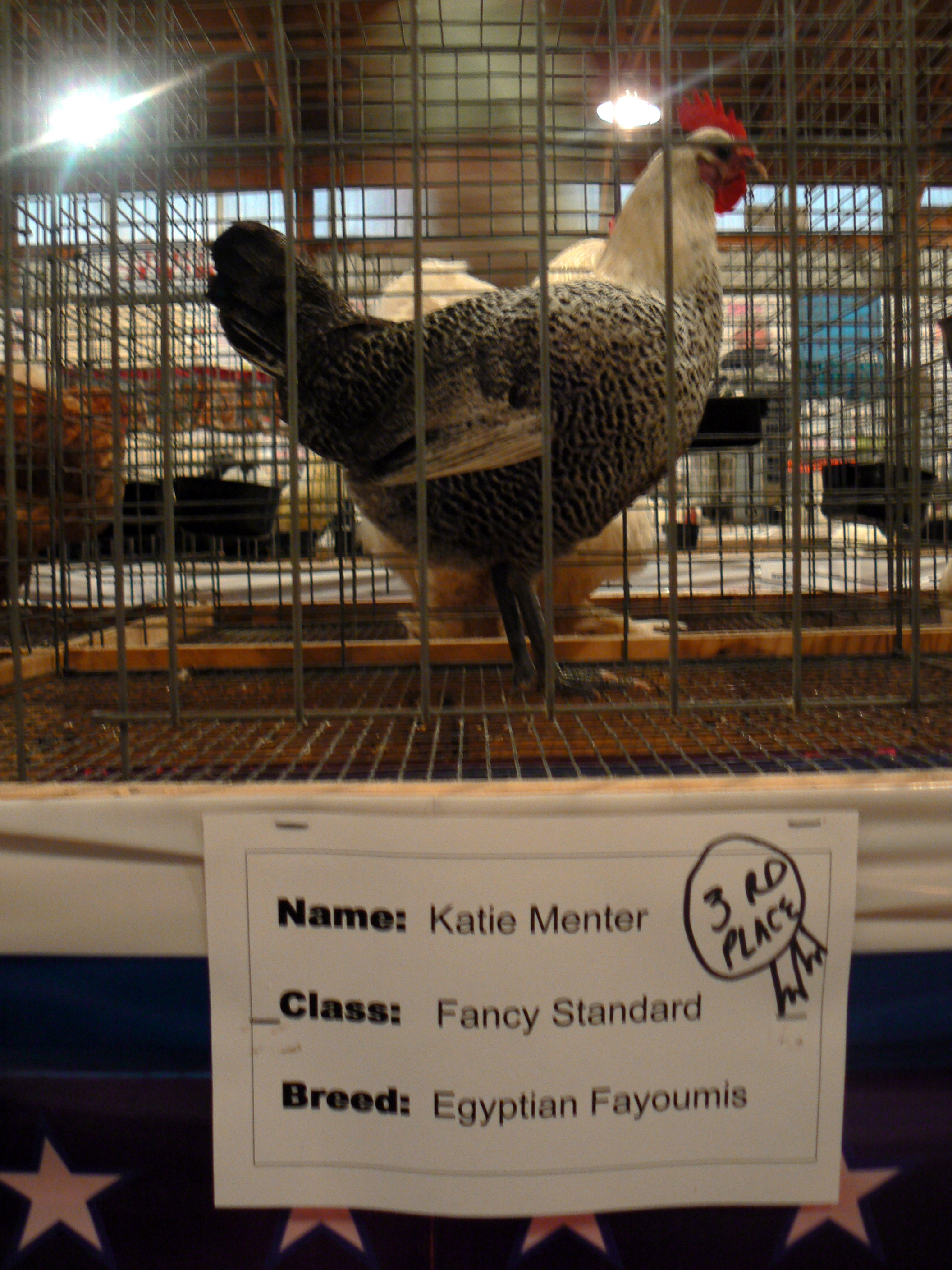 An Egyptian Fayoumi at a poultry show.